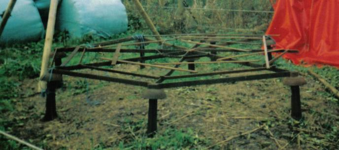 The cast iron Stathel at Wester Kittochside, the Museum of Scottish Country Life near East Kilbride, Glasgow